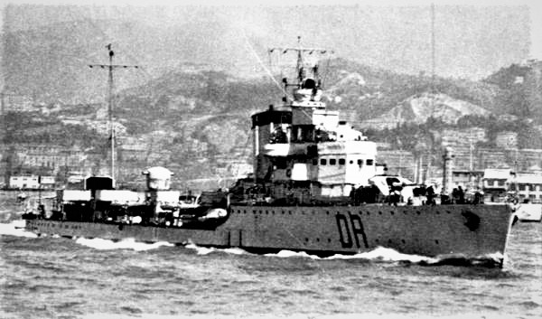 The destroyers Dardo (DR) in navigation.